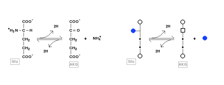 Oxidative deamination